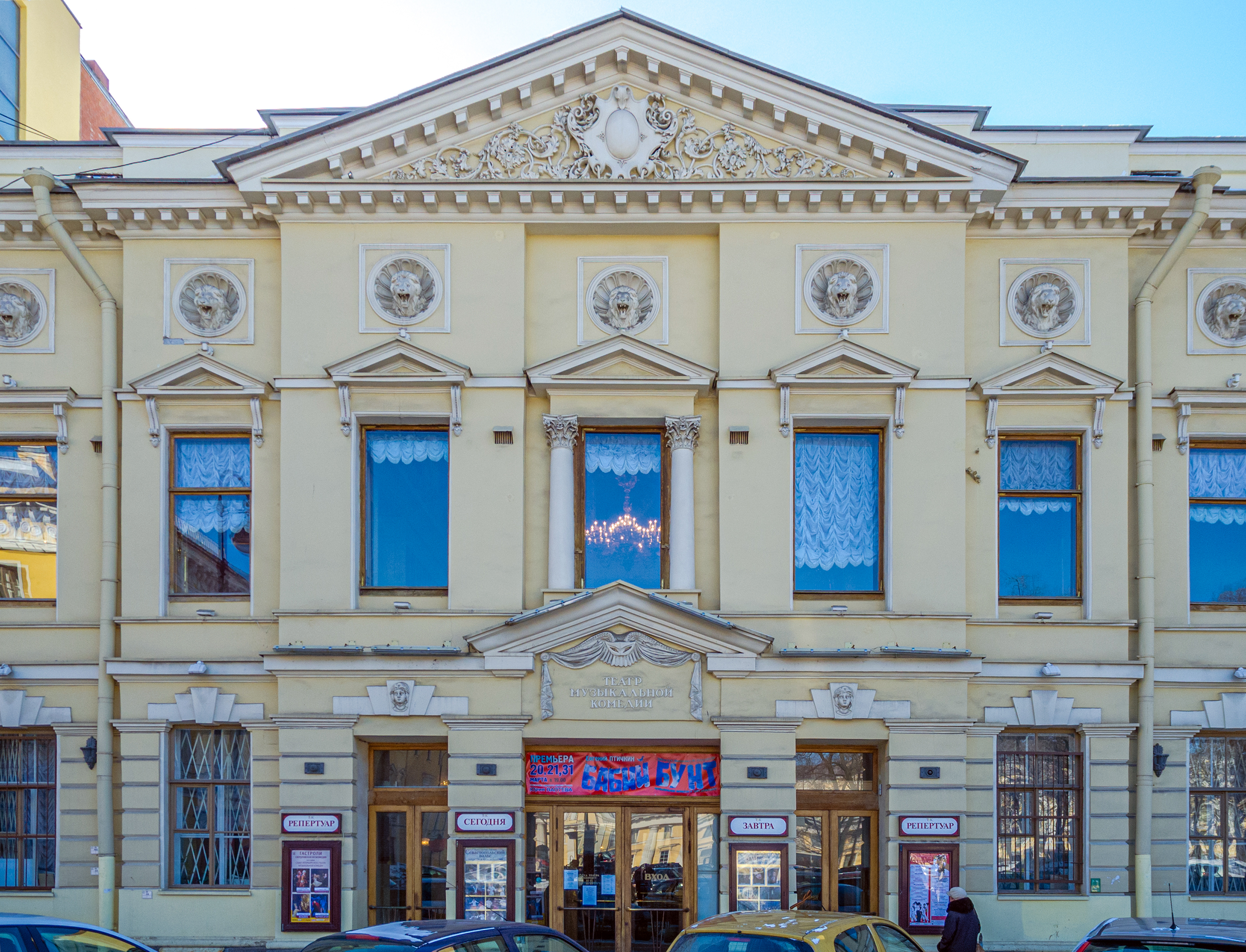 13, Italianskaya Street in Saint Petersburg.